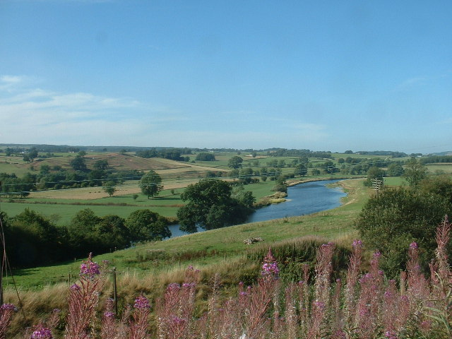 River Eden. Between Great and Little Salkelds